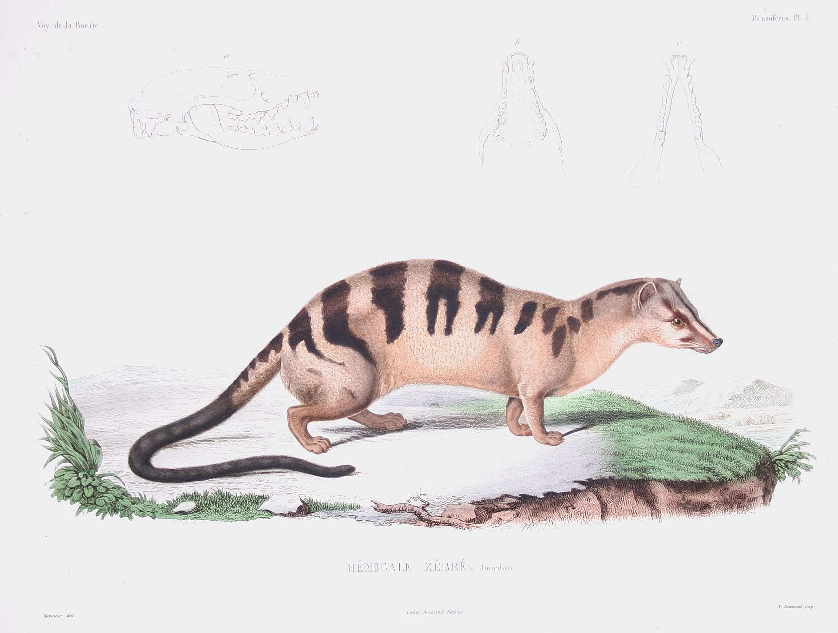 Zoology (mammals)